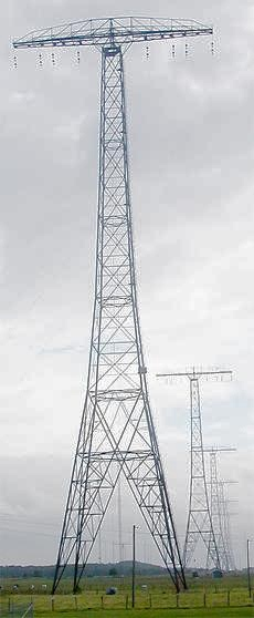 Antenna towers for the long wave (VLF) radio transmitter site at Grimeton, Sweden. The Grimeton station, built 1922-1924, has the only working Alexanderson alternator rotating armature radio transmitter, and has been made a World Heritage site. It transmits at 17.2 kHz (wavelength 17.4 kilometers) with callsign SAQ. The antenna consists of eight 1900 meter (1.2 mile) parallel wires, supported on 46 m crossarms on six 127 m towers, which feed energy to six vertical radiating elements. Information from Radiostation Grimeton, The Alexanderson Society